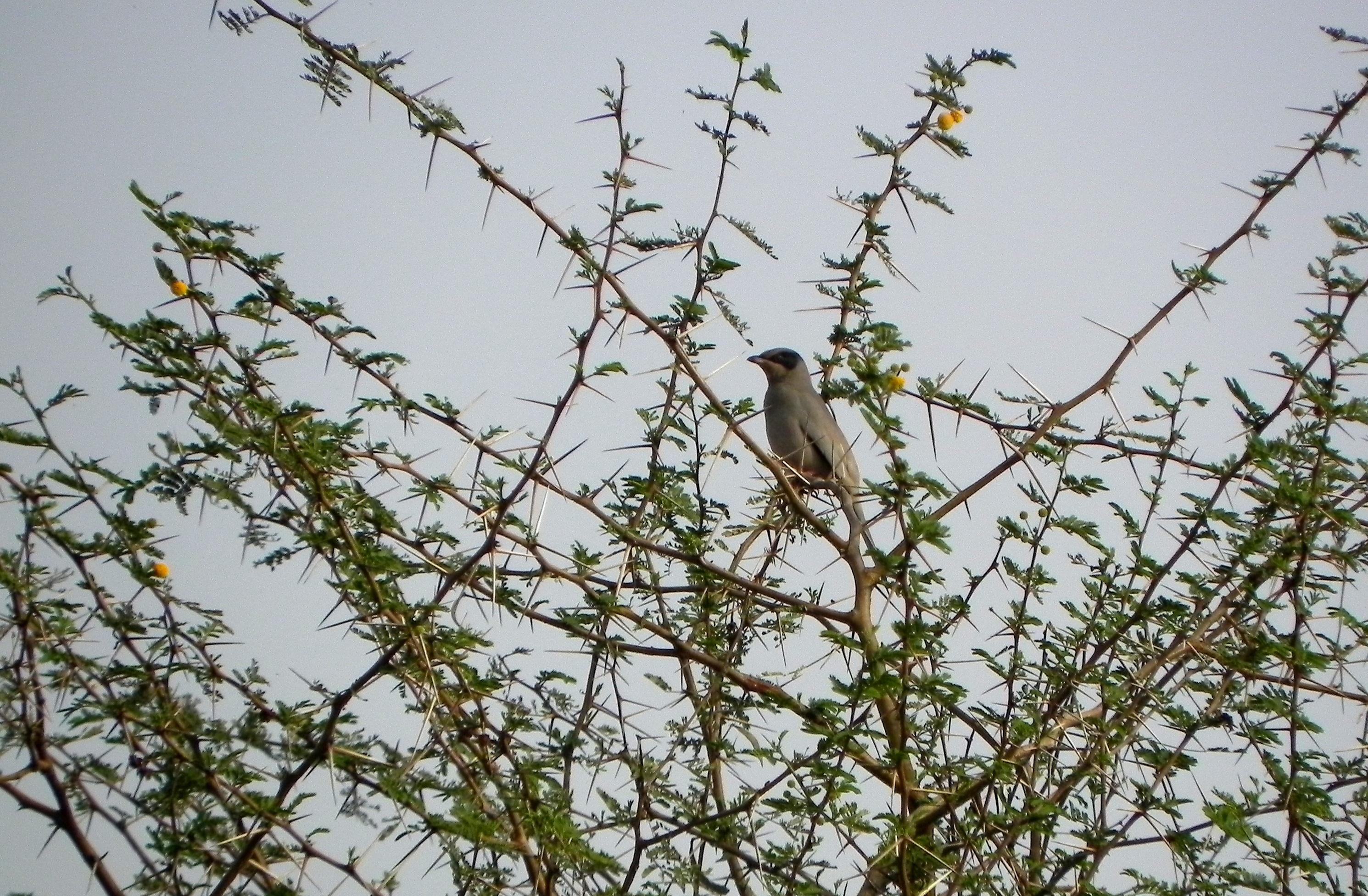 Grey hypocolius (Hypocolius ampelinus)